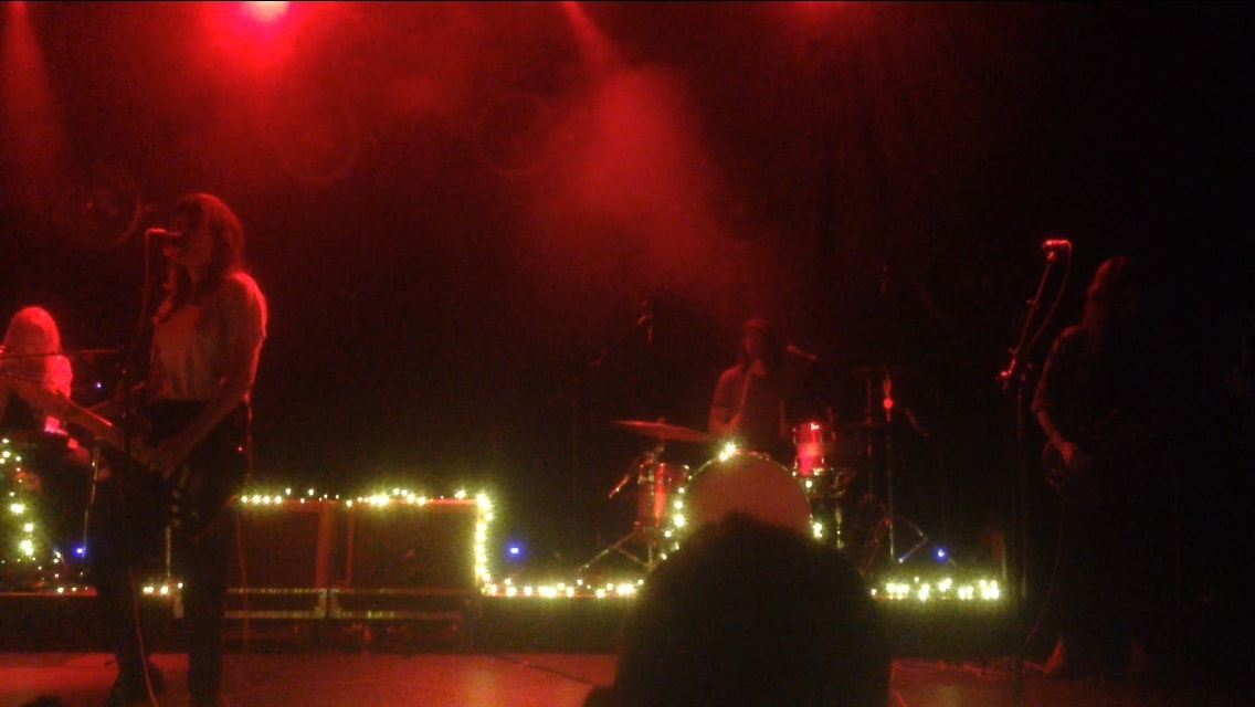 Courtney Barnett performing with her band at The Tivoli in Brisbane in August 2018